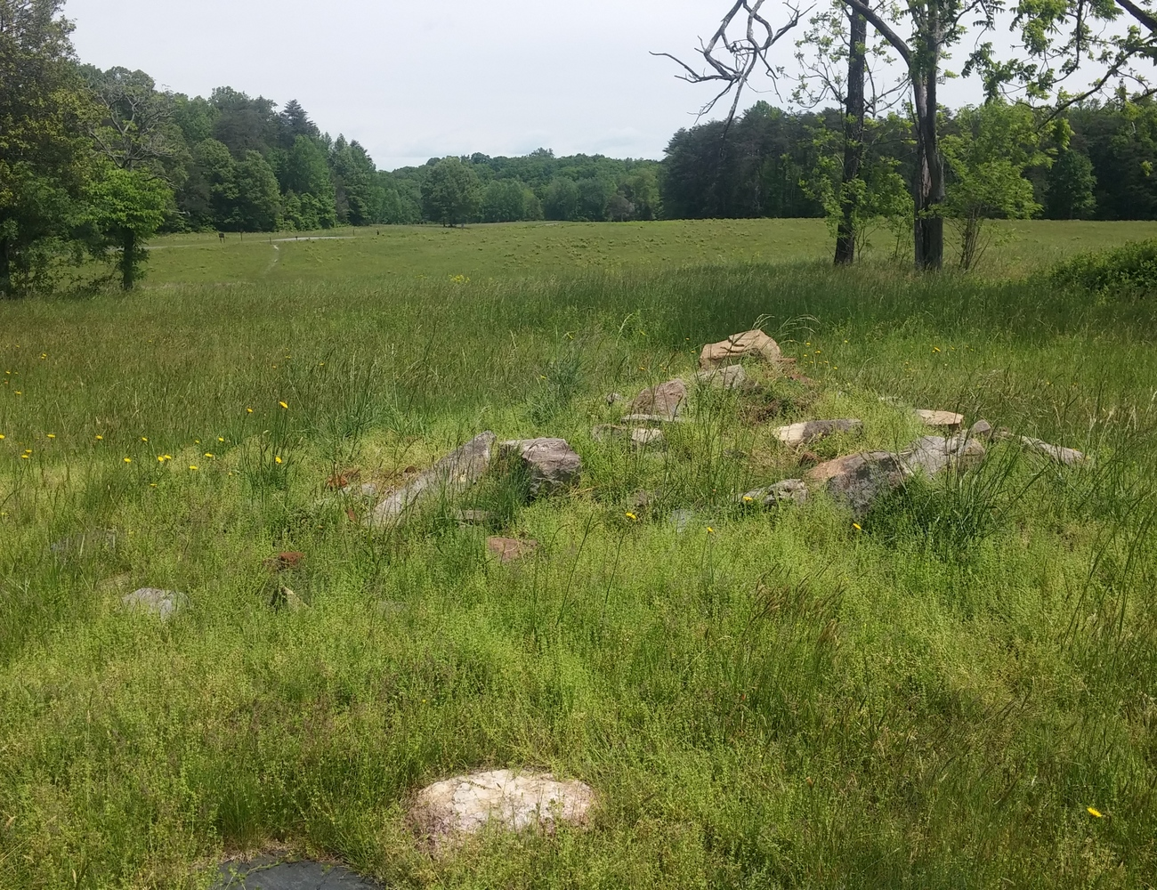 Remnants of Harrison's house at Spotsylvania battlefield.